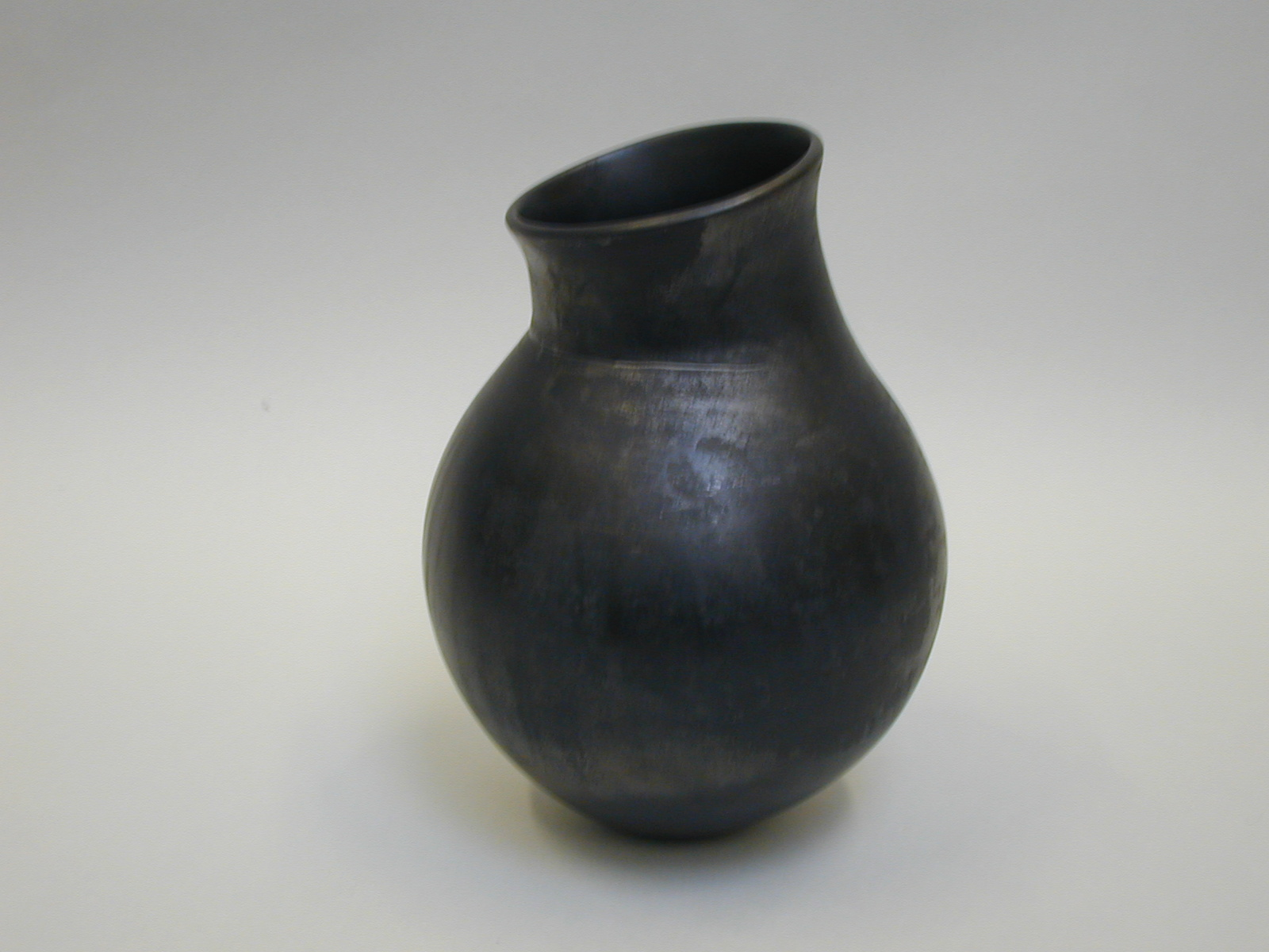 Burnished jar with asymmetrical mouth and neck (ridge beneath bend of neck). Black metallic finish, the result of burnishing and reduction firing. From the W.A. Ismay Studio Ceramics Collection at York Art Gallery